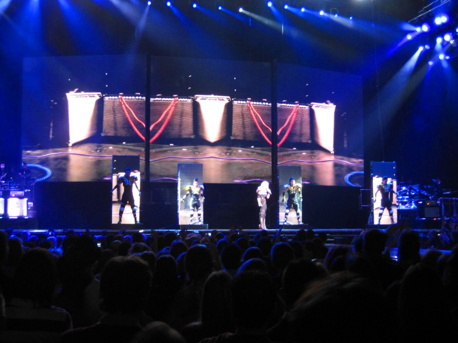 Madonna and her dancers coming out of the screens during the start of "4 minutes" on the Sticky & Sweet Tour"